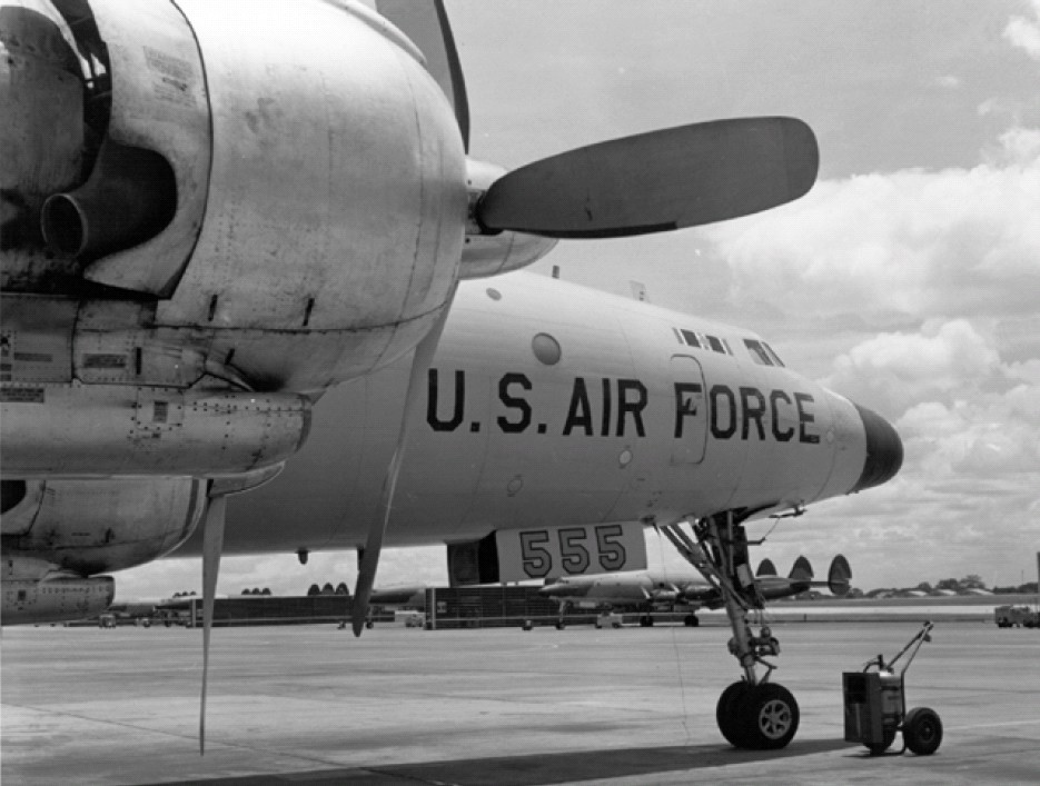 A U.S. Air Force Lockheed EC-121D Warning Star (s/n 53-555) of the 552nd Airborne Early Warning & Control Wing at Korat Royal Thai Air Force Base, Thailand, in September 1970. The crew of this aircraft made the first radar-guided intercept on 24 Oct 1967, when it was operationg over the Gulf of Tonkin and directed two USAF McDonnell F-4C Phantom II fighters to destruct a North Vietnamese Mikoyan-Gurevich MiG-21. The aircraft is today on display at National Museum of the USAF. Note the EC-121Rs in the background.